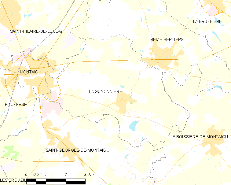 Map of French municipality La Guyonnière